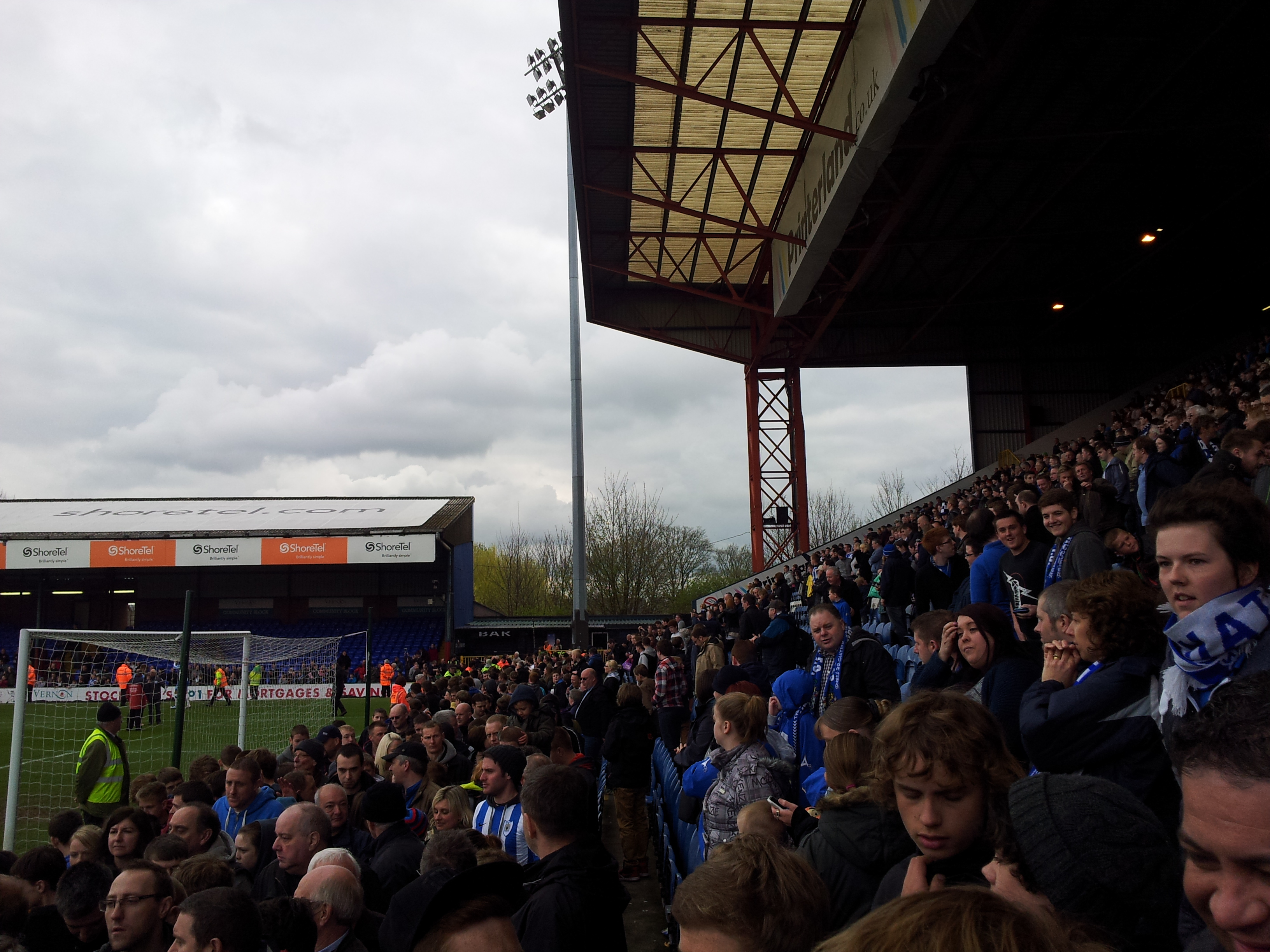 Stockport County fans after their 2-0 home win versus Tamworth in 2012.